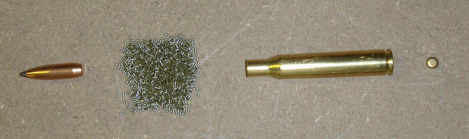 Example of components for ammunition handloading and reloading